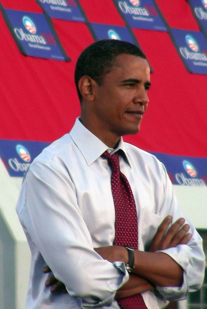 Barack Obama waiting as he was announced by DC Mayor Fenty prior to a speech that he gave in Washington DC.Barack Obama